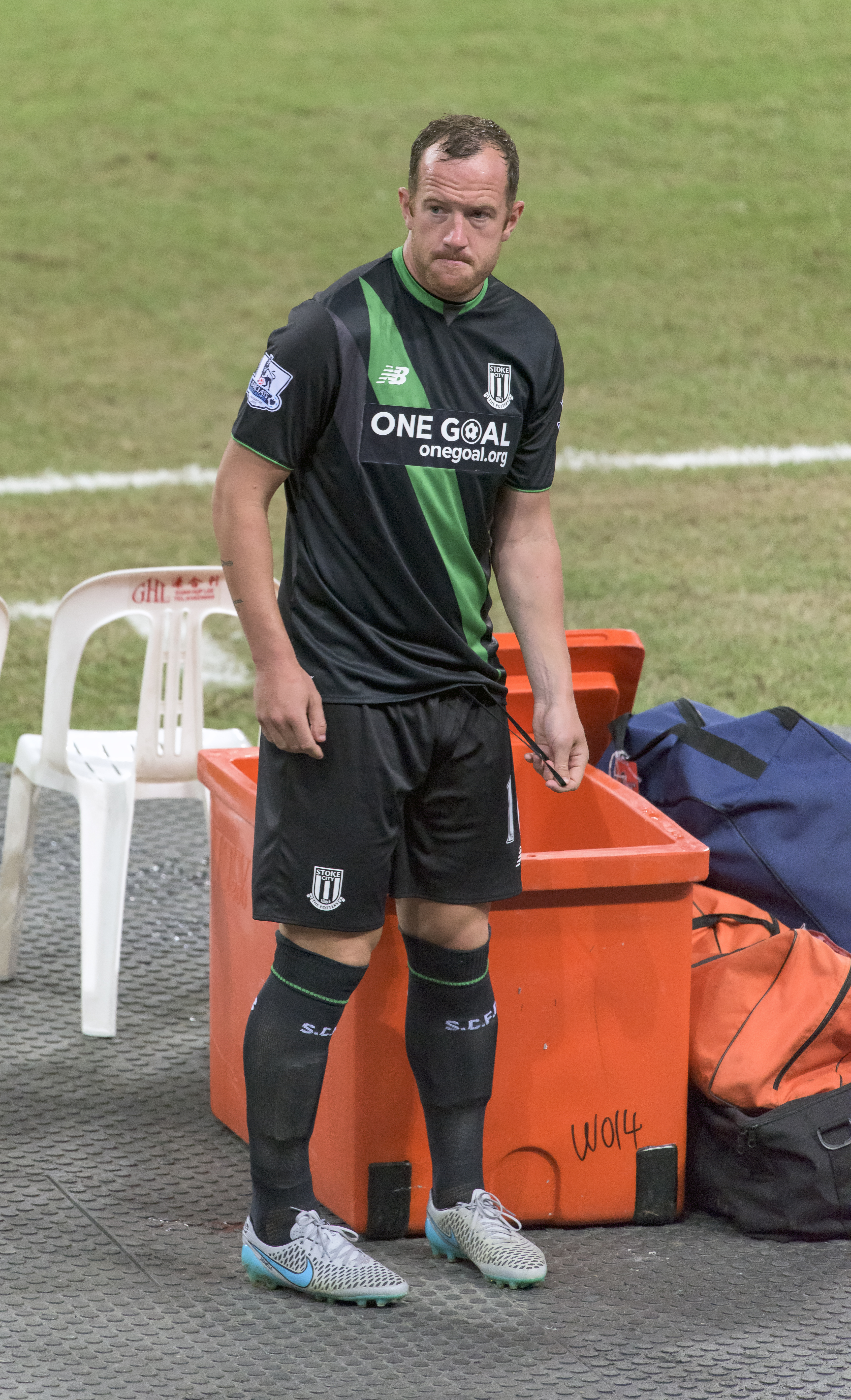 charlie adam stoke city fc singapore barclays asia